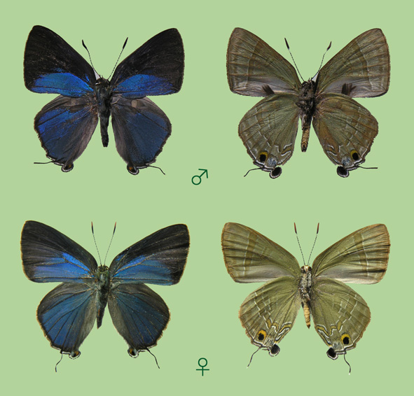 Rapala tomokoae, upper- and underside of male & female